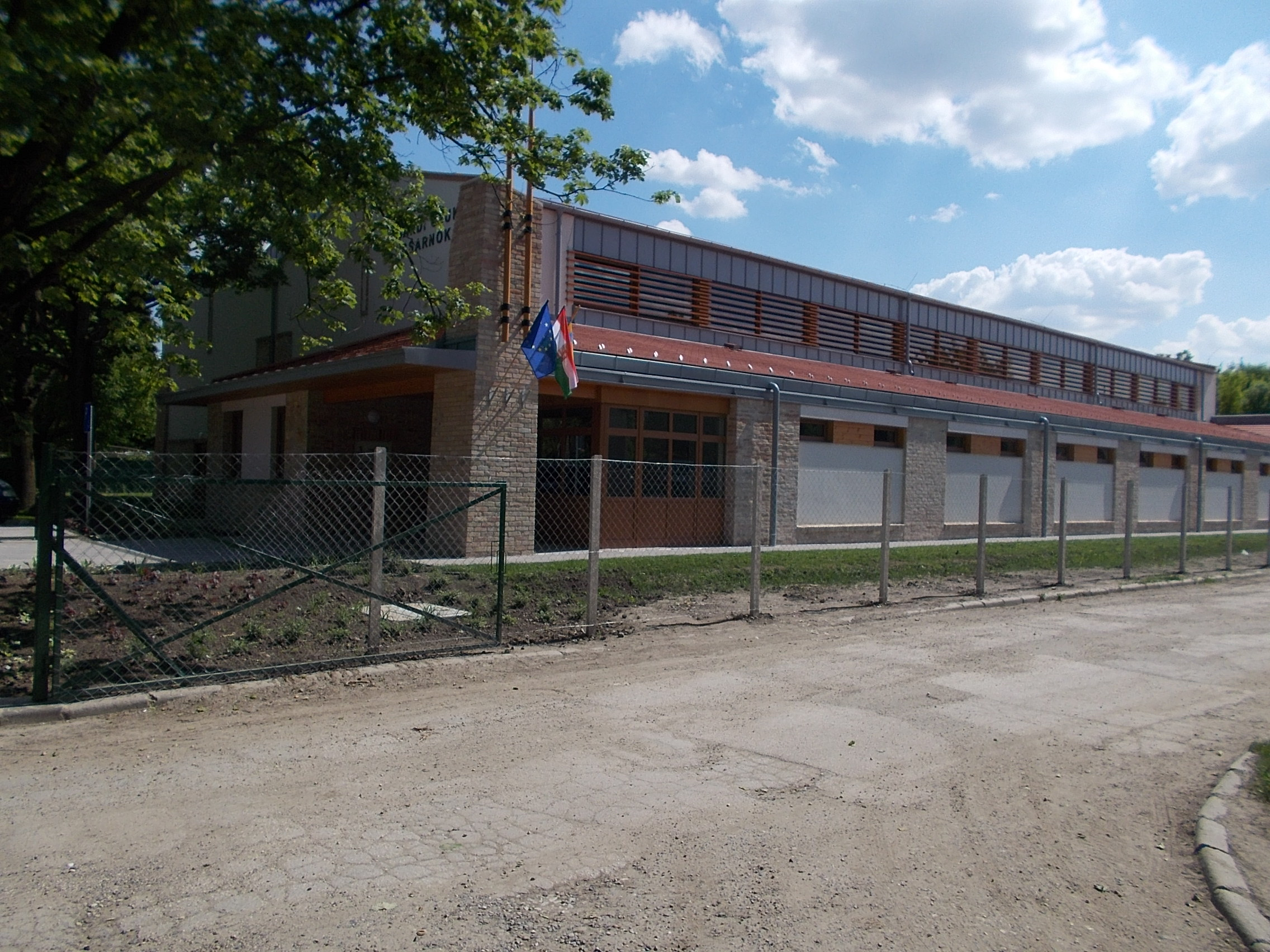 Agárd Csuka Sports Hall. - 34 Gárdonyi Street, Agárd, Gárdony, Fejér County, Hungary.